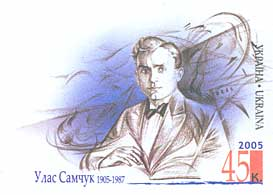 Stamp of Ukraine